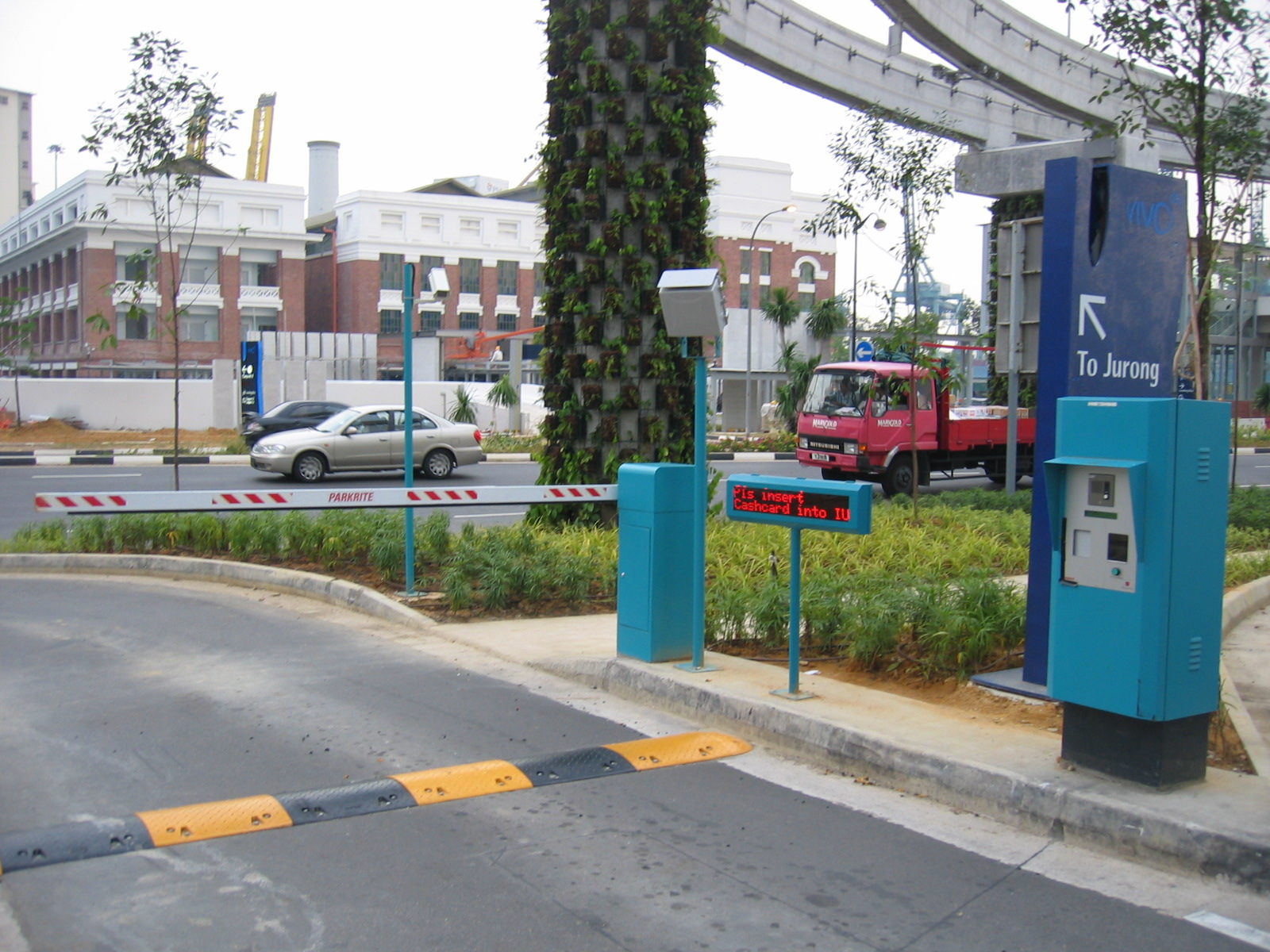 Electronic Parking System at VivoCity, Singapore.